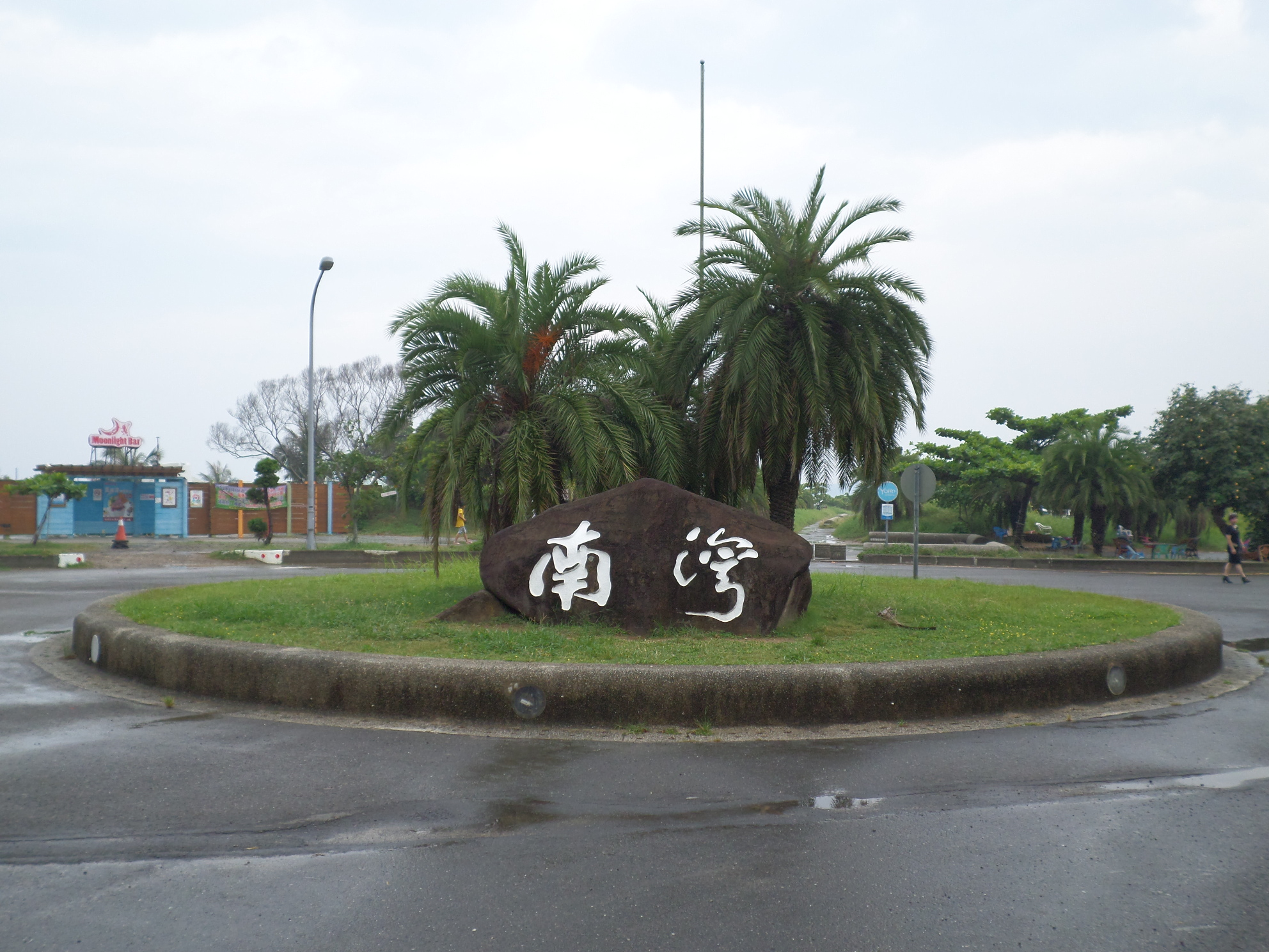 South Bay, Hengchun Township, Pingtung County, Taiwan